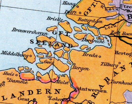 County of Zeeland and surrounding territories in the 15th century.